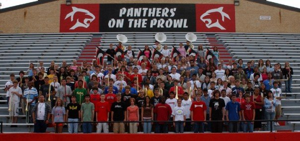 Great Bend High School Marching Band 2005 - 2006 Band Director: Marc Webster Assistant Band Director: Charles Moyers Head Drum Major / President: Ronnie Hernandez - Ronnie was the last appointment made by former Director of Bands, Ron Mink. Ronnie was also the first Hispanic student in GBHS history to hold this title. Assistant Drum Major / Vice President: Kelsey Culver Assistant Drum Major / Secretary - Treasurer / Rifle Performer: Dagoberto Heredia - Was the 2nd hispanic in GBHS history to serve as Head Drum Major / President after his predecessor, Ronnie Hernandez.